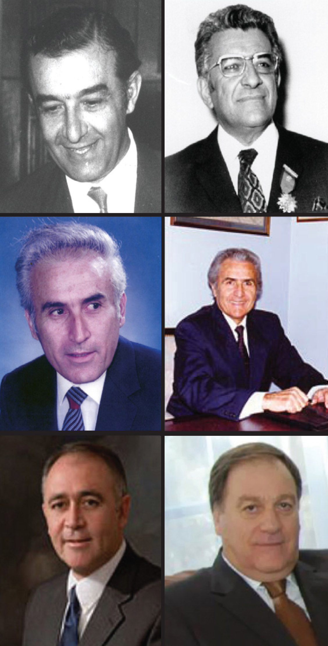 The Armenian-Cypriot Representatives (1960-2011).